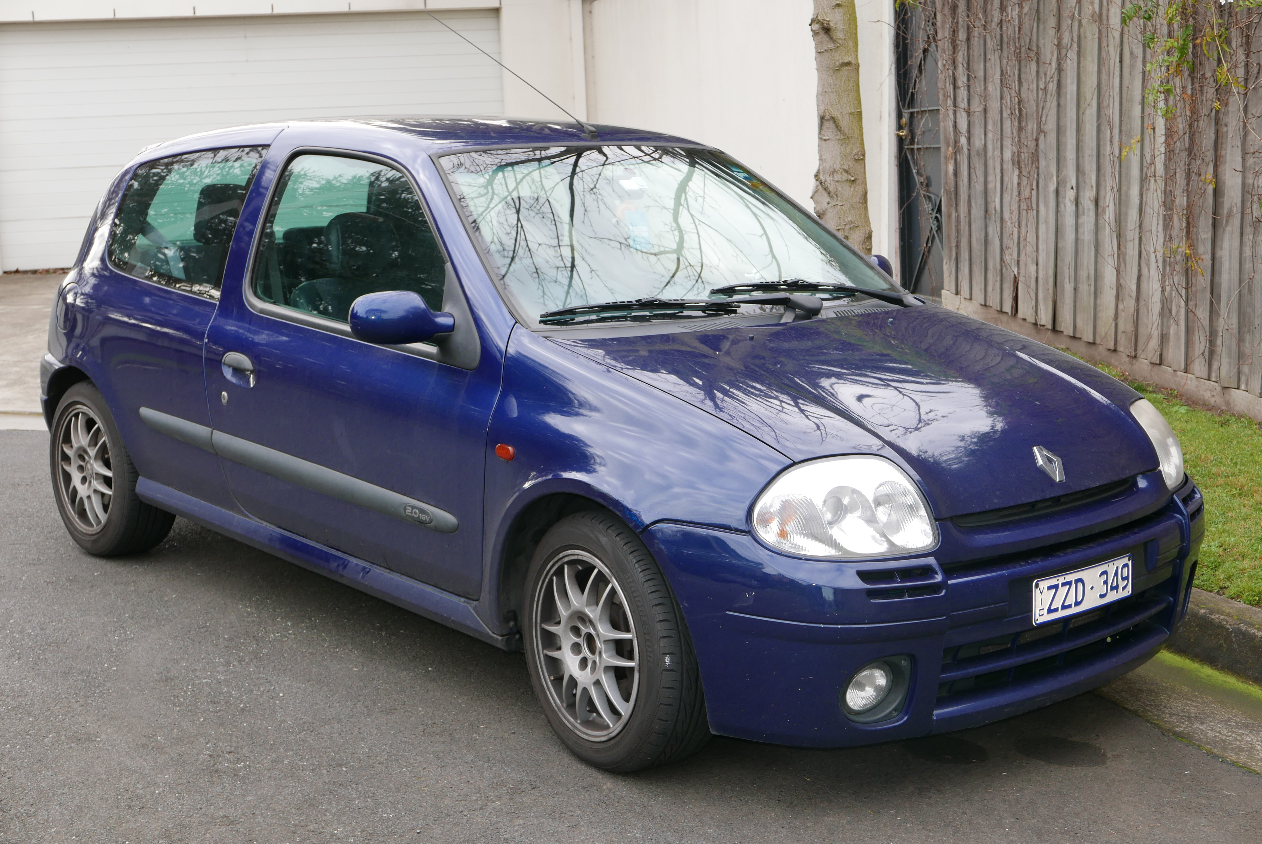 2001 Renault Sport Clio (X65) 3-door hatchback. Photographed in Kew, Victoria, Australia. Vehicle registration enquiry results Jurisdiction Victoria Registration ZZD349 Chassis code VF1CB150F10604024 Engine code C003711 Compliance date 2001-05 Year of manufacture 2001